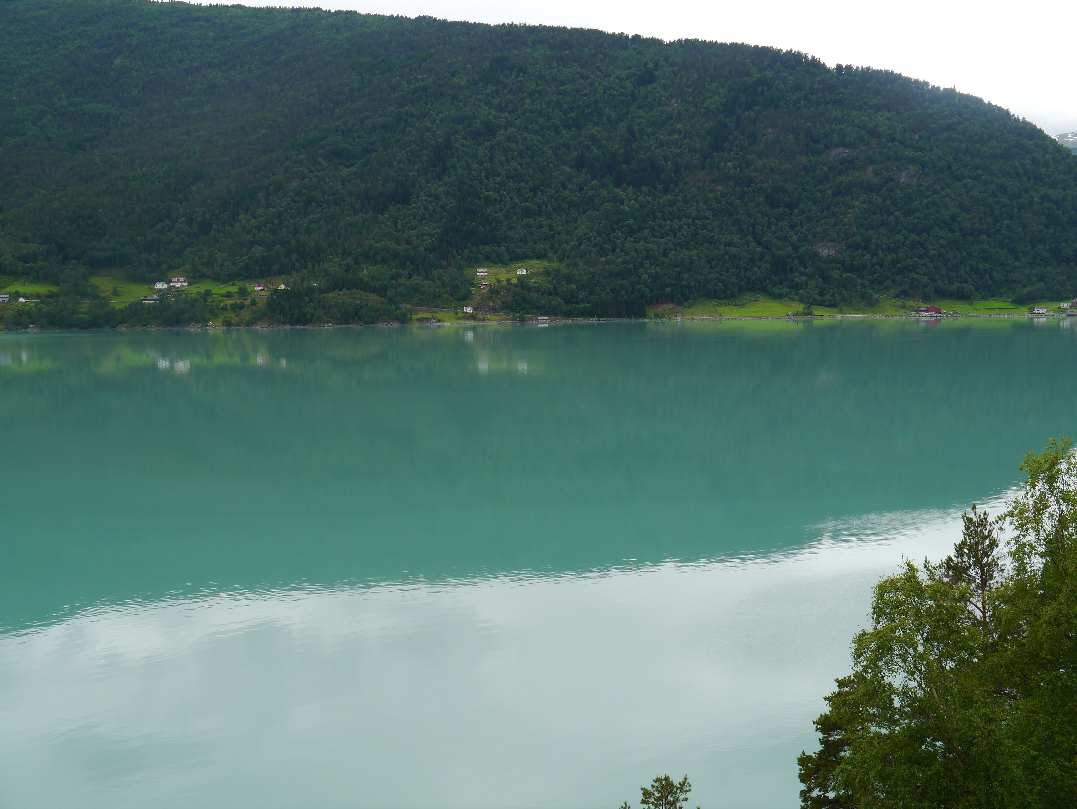 along the Sognefjorden, Sogn og Fjordane County, Western Norway